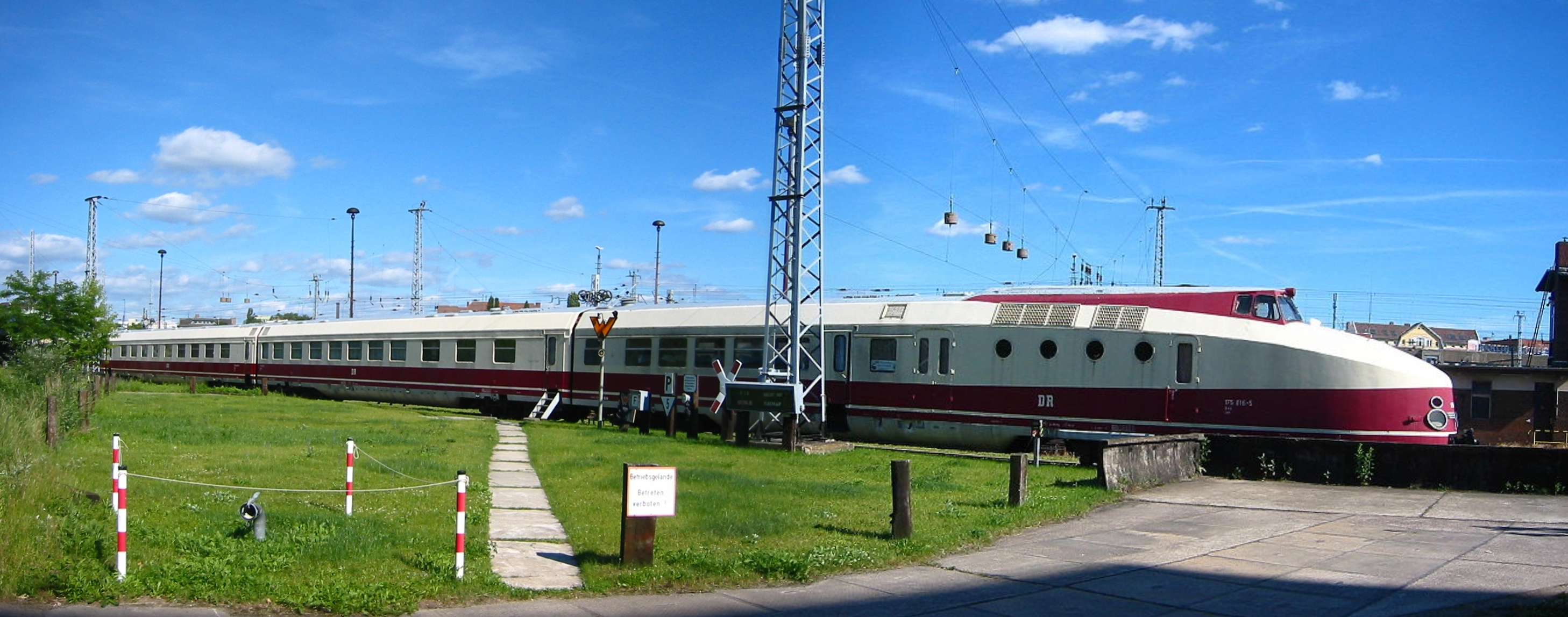 diesel multiple unit of type series VT 18.16 (also known as VT 175 and BR 675)